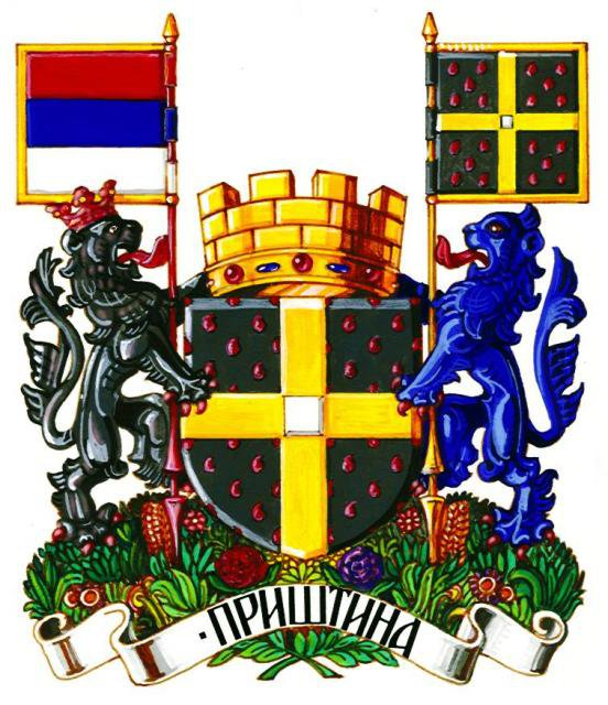 Coat of Arms of Priština